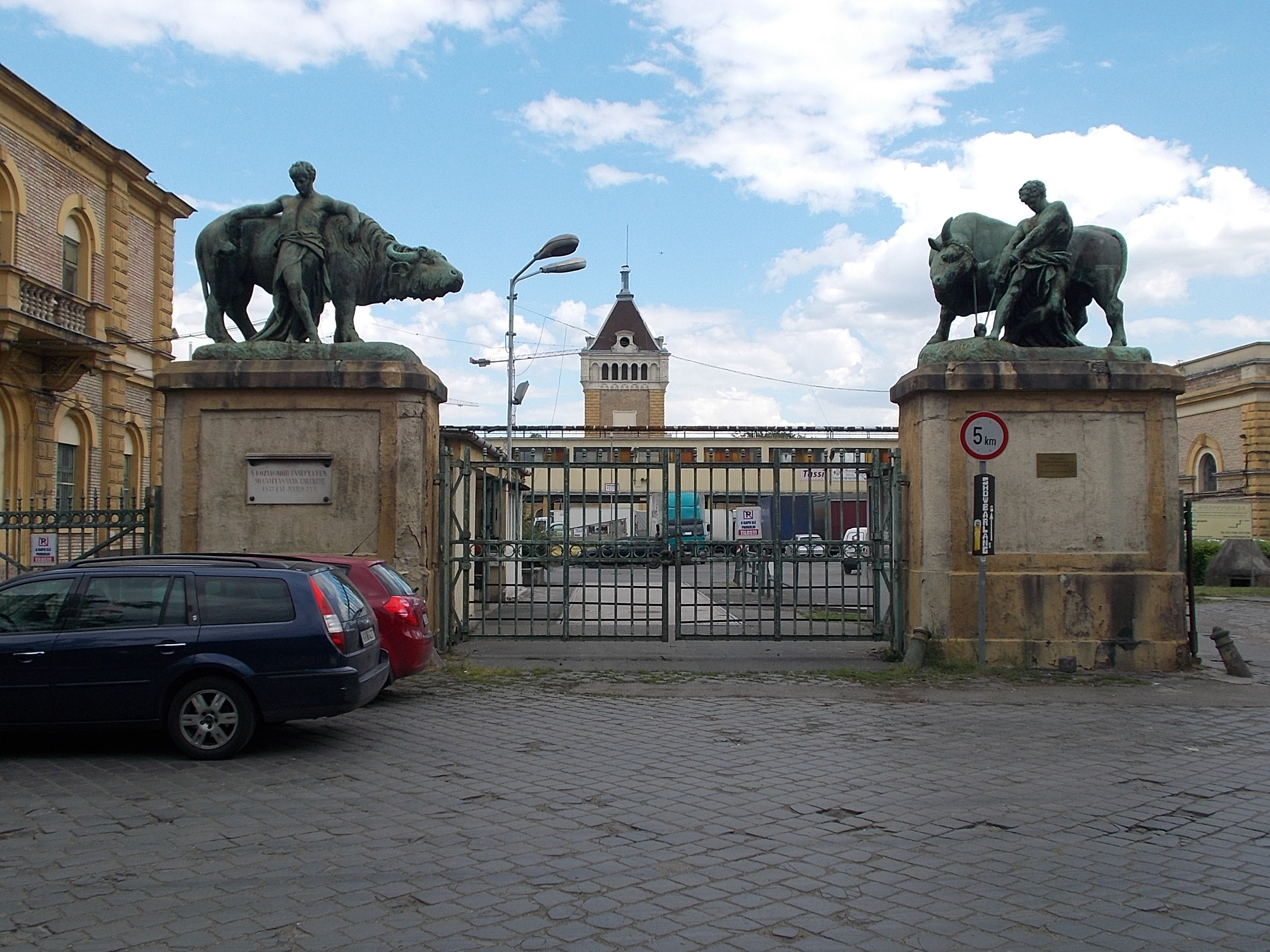 Communal slaughterhouse building complex. (more formal Central City Communal Slaughterhouse) planned by van der Hude. Builder: architect Gyula Hennicker. Built in 1872. Gate bronze sculptures made by Szilárd Sződy (1937). Replicas . Originals (stone) also located here in 1874 and made by Reinhold Begas. - Soroksári út, Budapest District IX., Hungary.